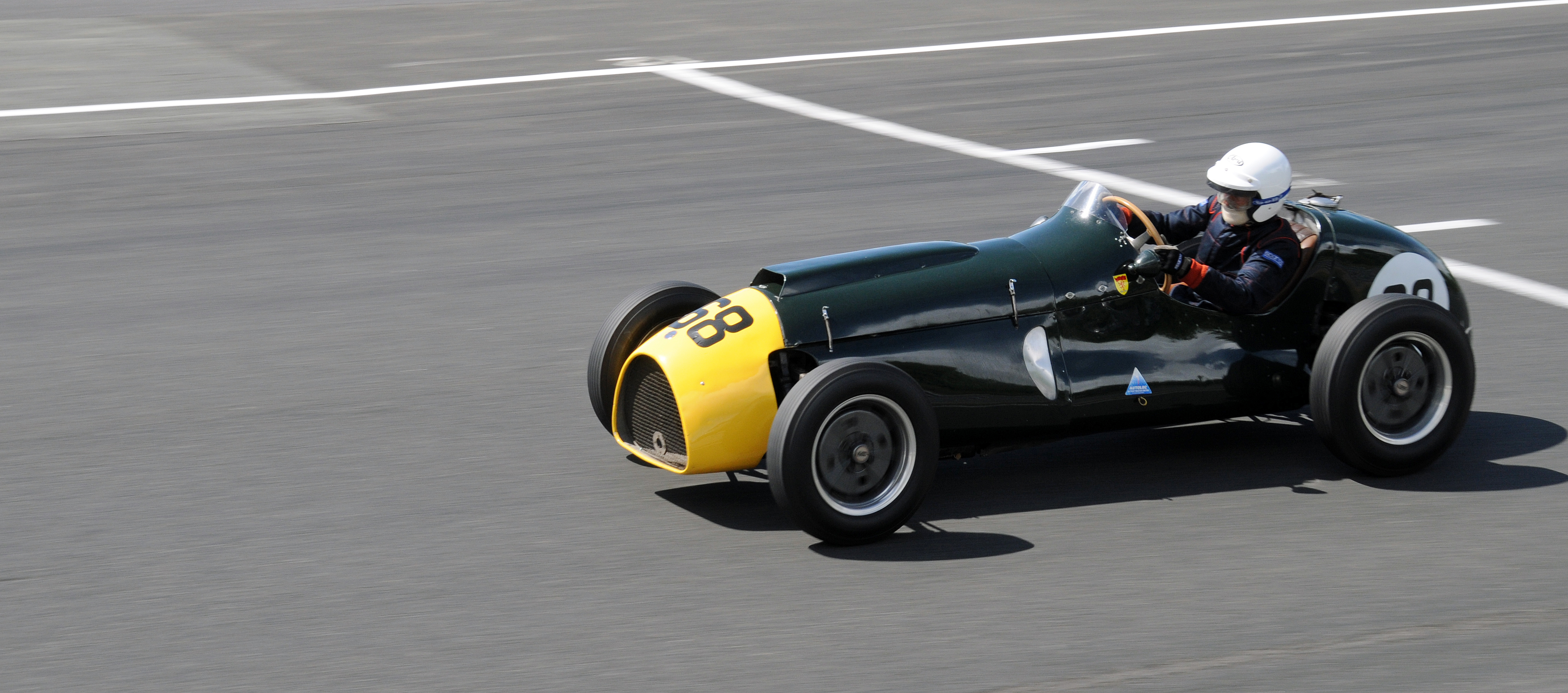 1953 Cooper Bristol Mk2